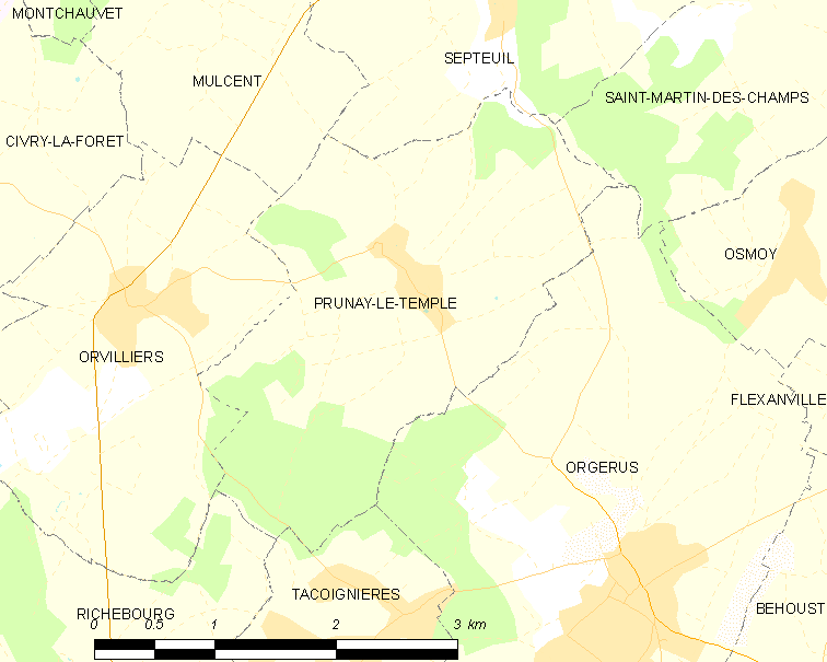 Map of French municipality Prunay-le-Temple